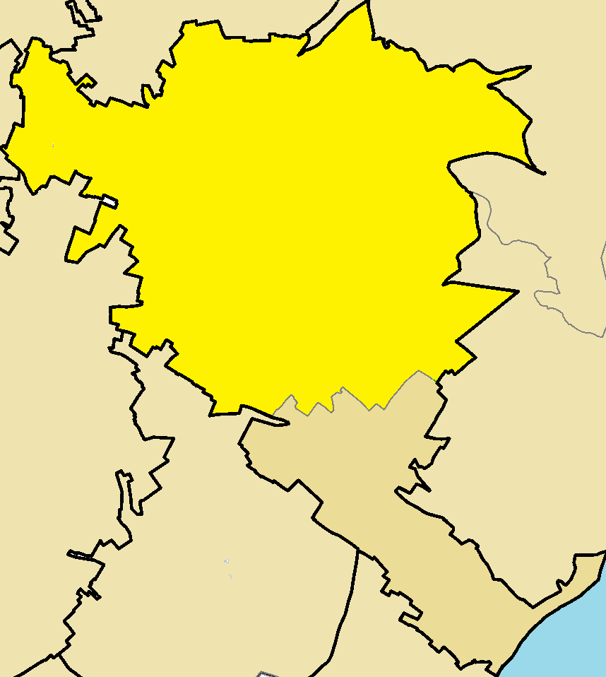 Dromolaxia in Dromolaxia-Meneou Municipality.